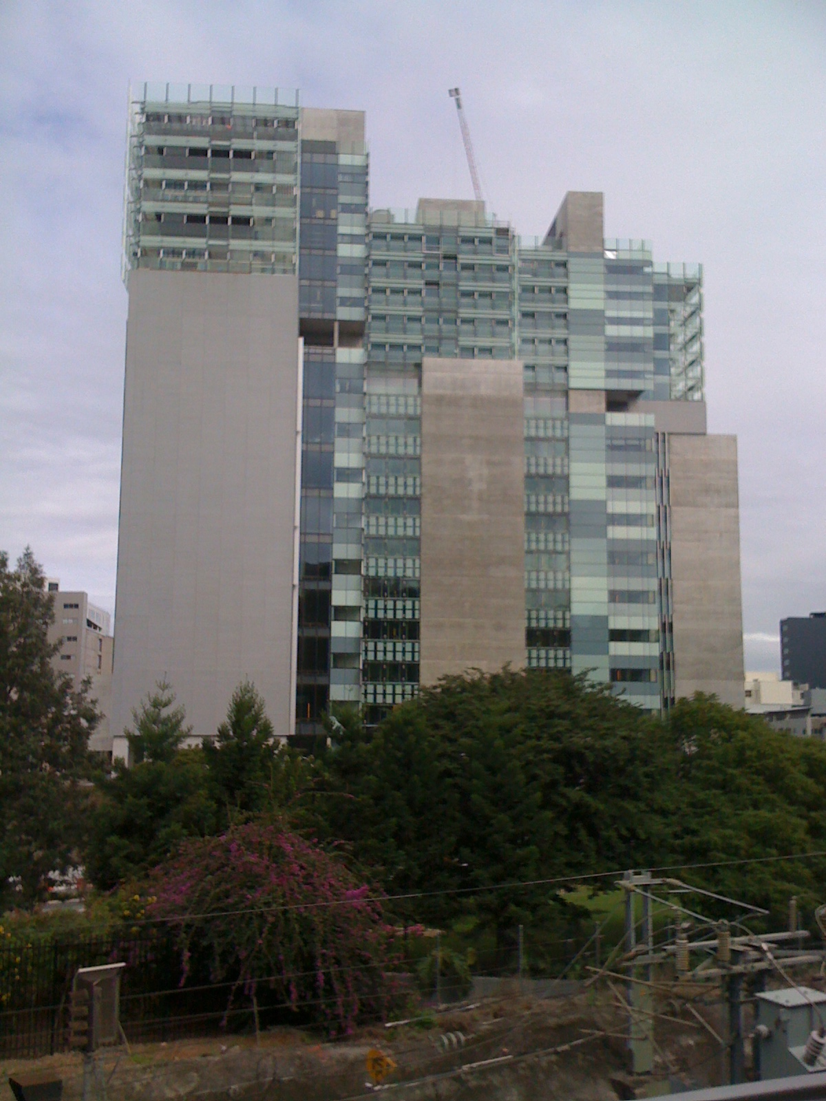 Brisbane Supreme and District Court in July 2012